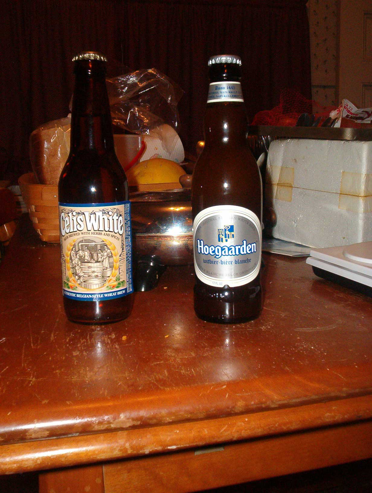 Two bottles of beer, Celis White and Hoegaarden. Photo by Hephaestos